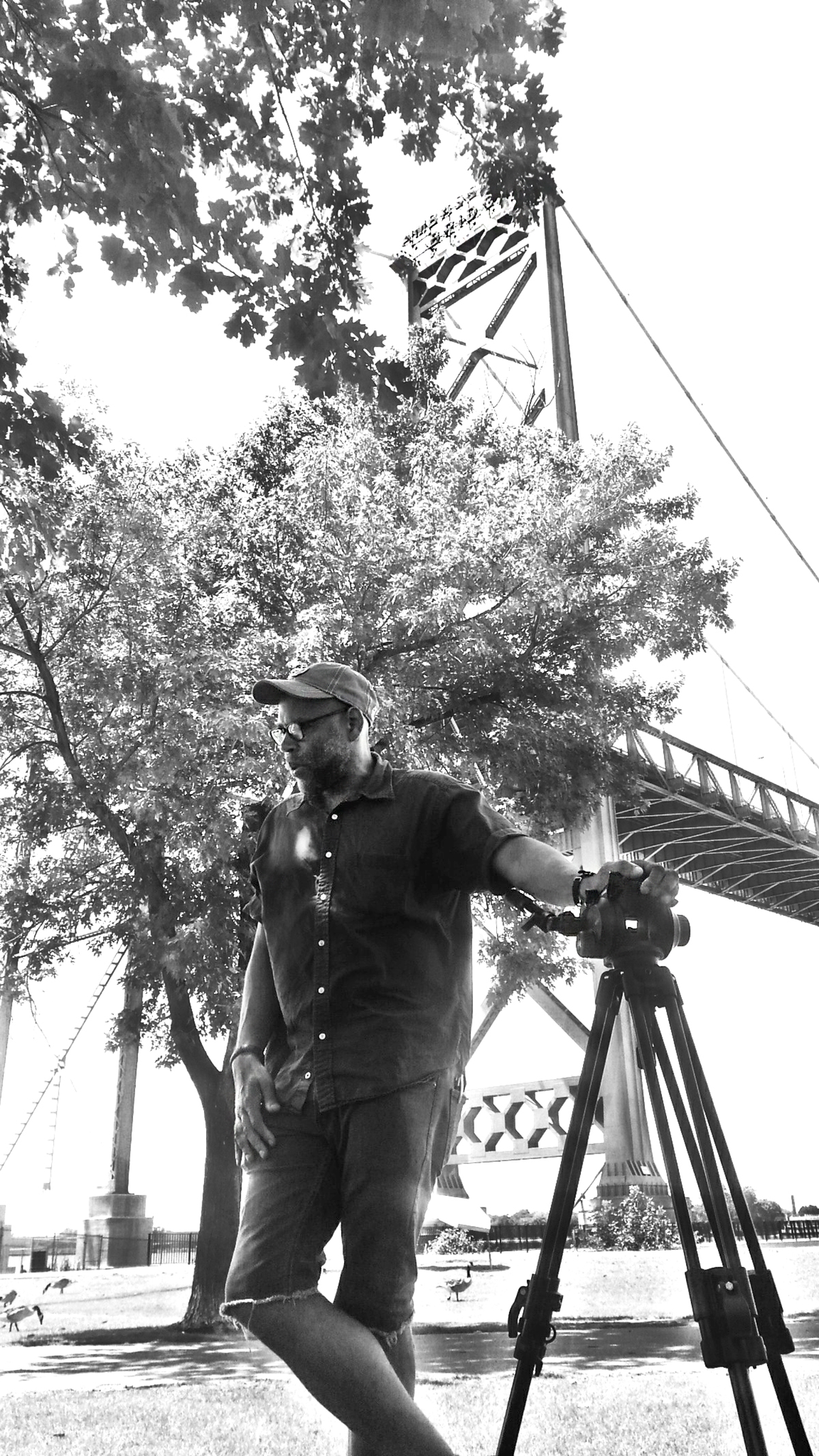 Portrait of Kevin Jerome Everson in Detroit-Windsor in 2014 on set of "It Seems to Hang On." Ambassador Bridge in the background. Photograph by Oona Mosna.